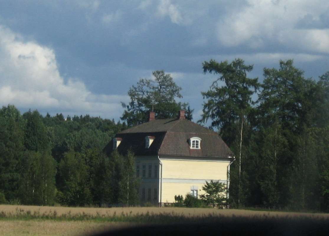 A manor house in Yläne, Pöytyä, Finland.